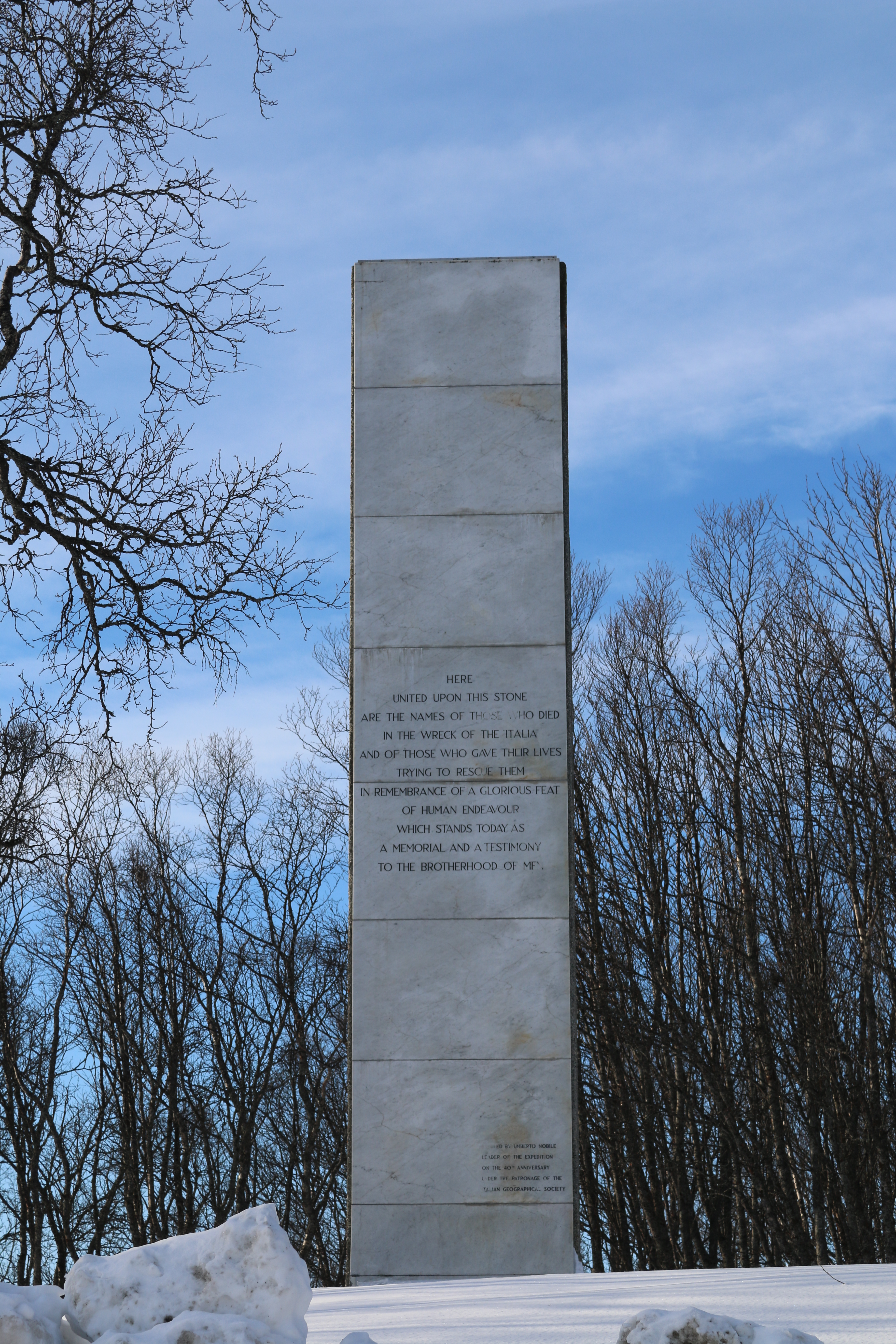 Nobile monument in Telegrafbukta in Tromsø dedicated to the people that died during the Airship Italia crash and subsequent rescue efforts.